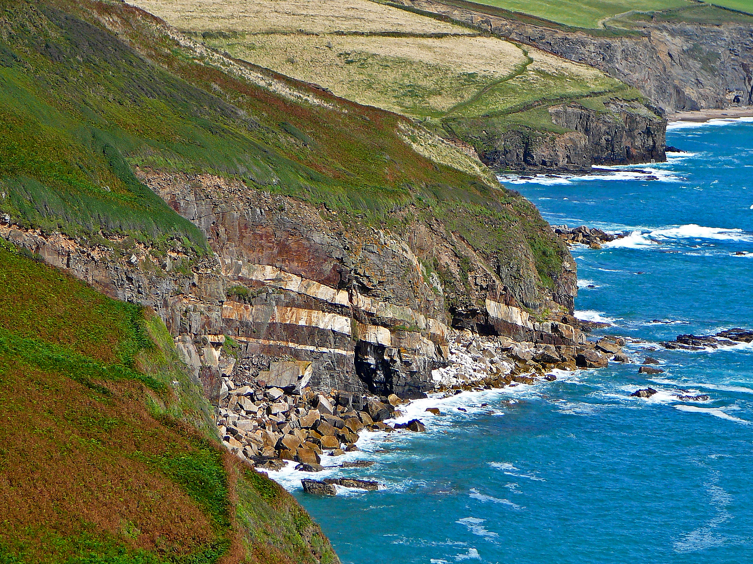 Cornwall